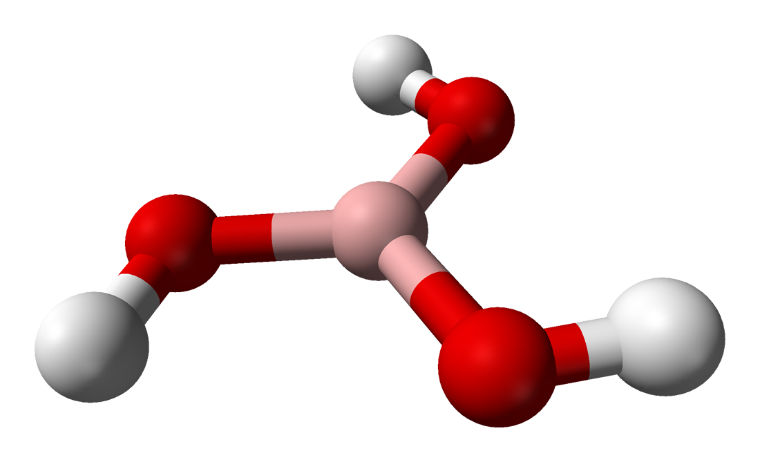 Ball-and-stick model of the boric acid molecule